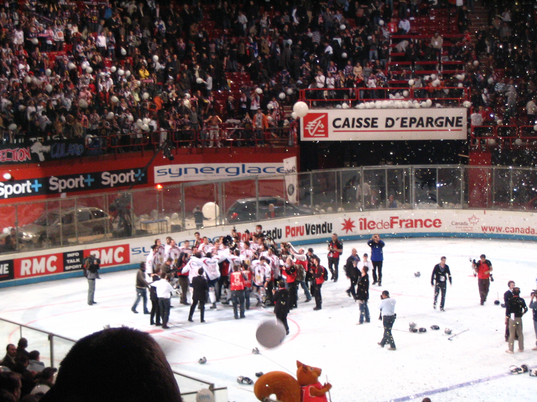 Ice Hockey French Cup Final 2007-2008 at Paris-Bercy